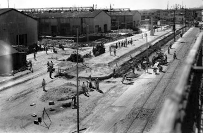 Alameda de Paula, Havana during ca. 1940s renovation. Image depicts construction at the ends of Alameda de Paula which occurred during the 1940s.